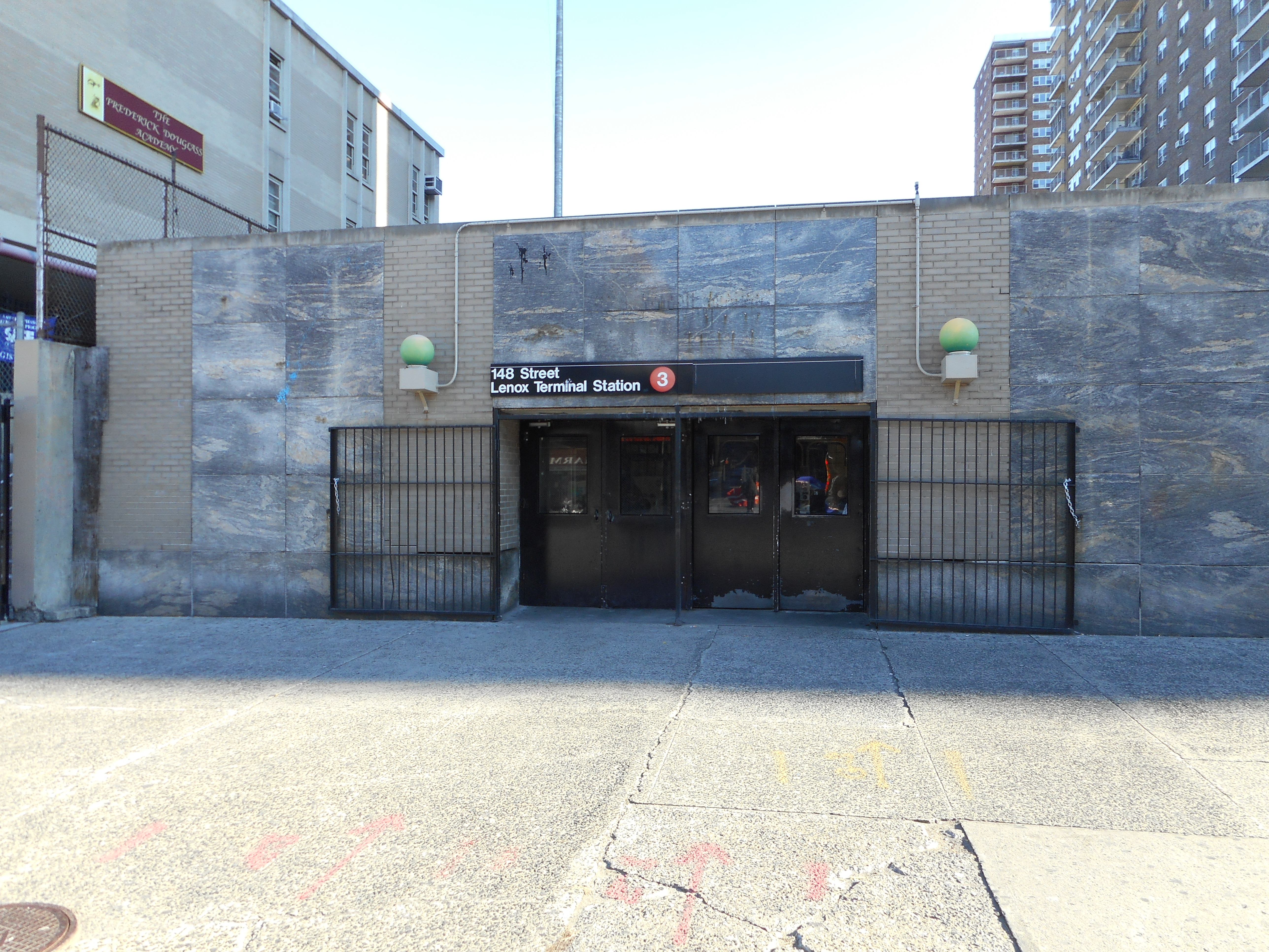 After three years an image of the street entrance to 148th Street Lenox Terminal subway station has finally been added to Wikipedia.